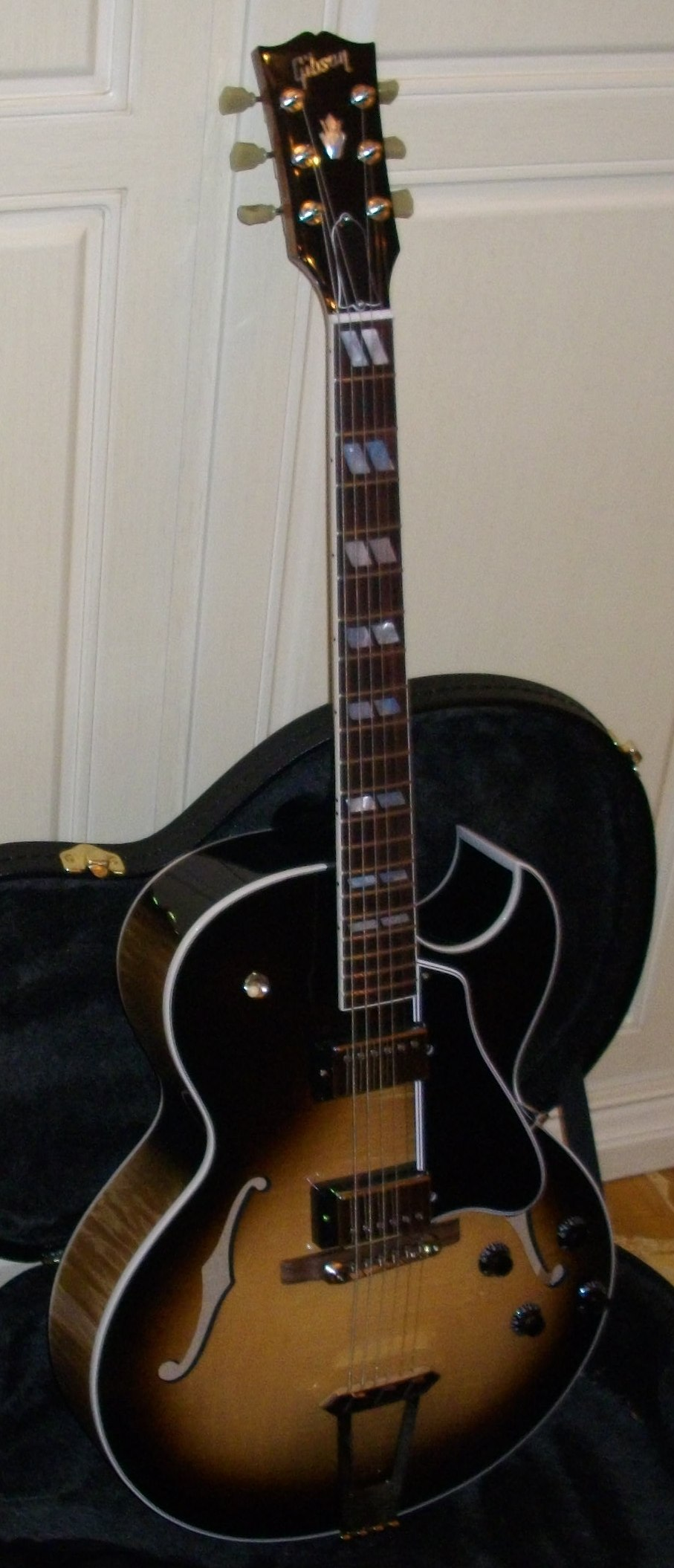 A Gibson ES-175 handcrafted in Memphis, TN in 2008.